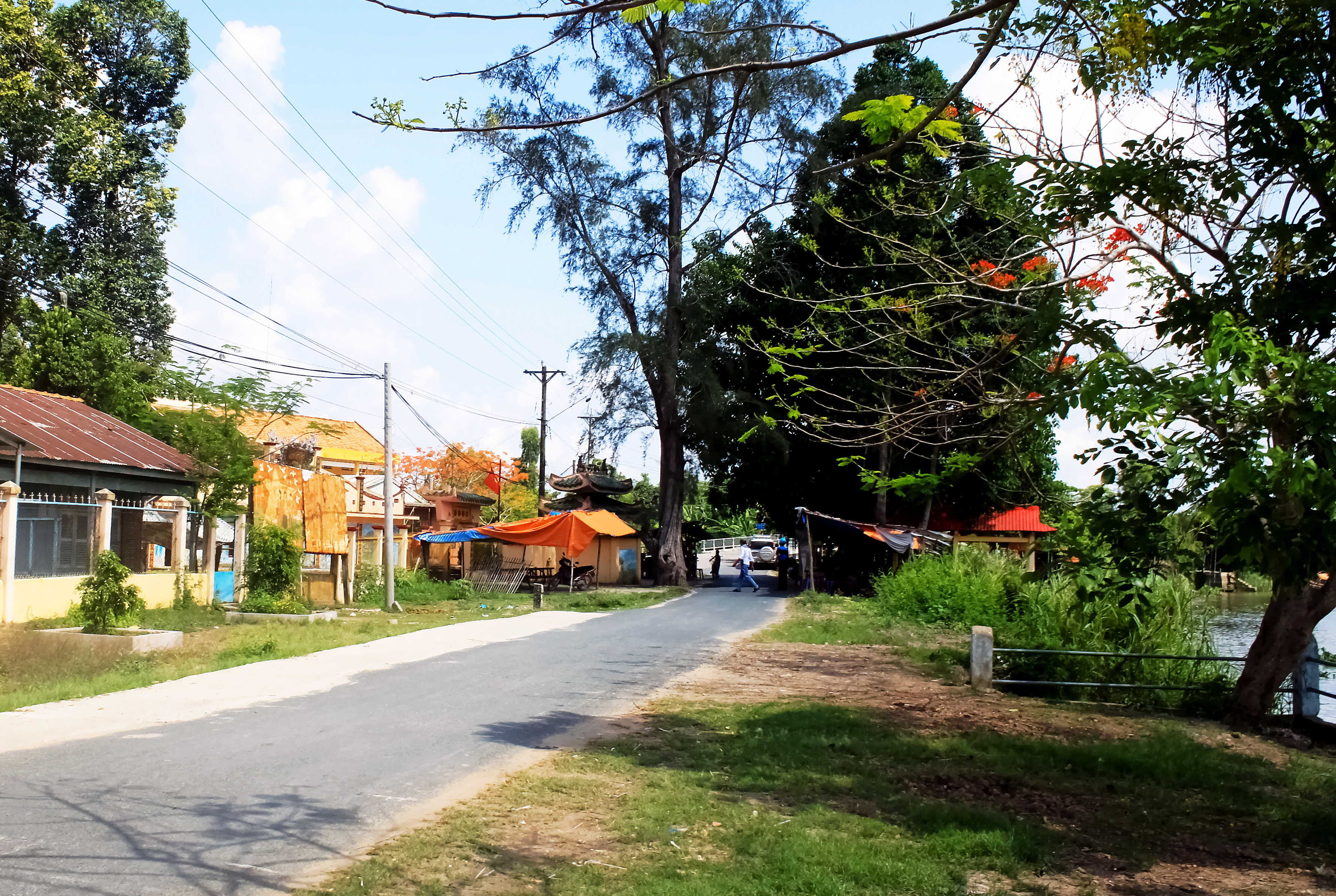 Phong cảnh nơi đình Định Mỹ tọa lạc, thuộc ấp Mỹ Thành, xã Định Mỹ, huyện Thoại Sơn, tỉnh An Giang, Việt Nam.